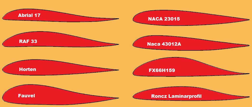 Reflexed Airfoils